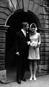 Audrey Hepburn and Andrea Dotti